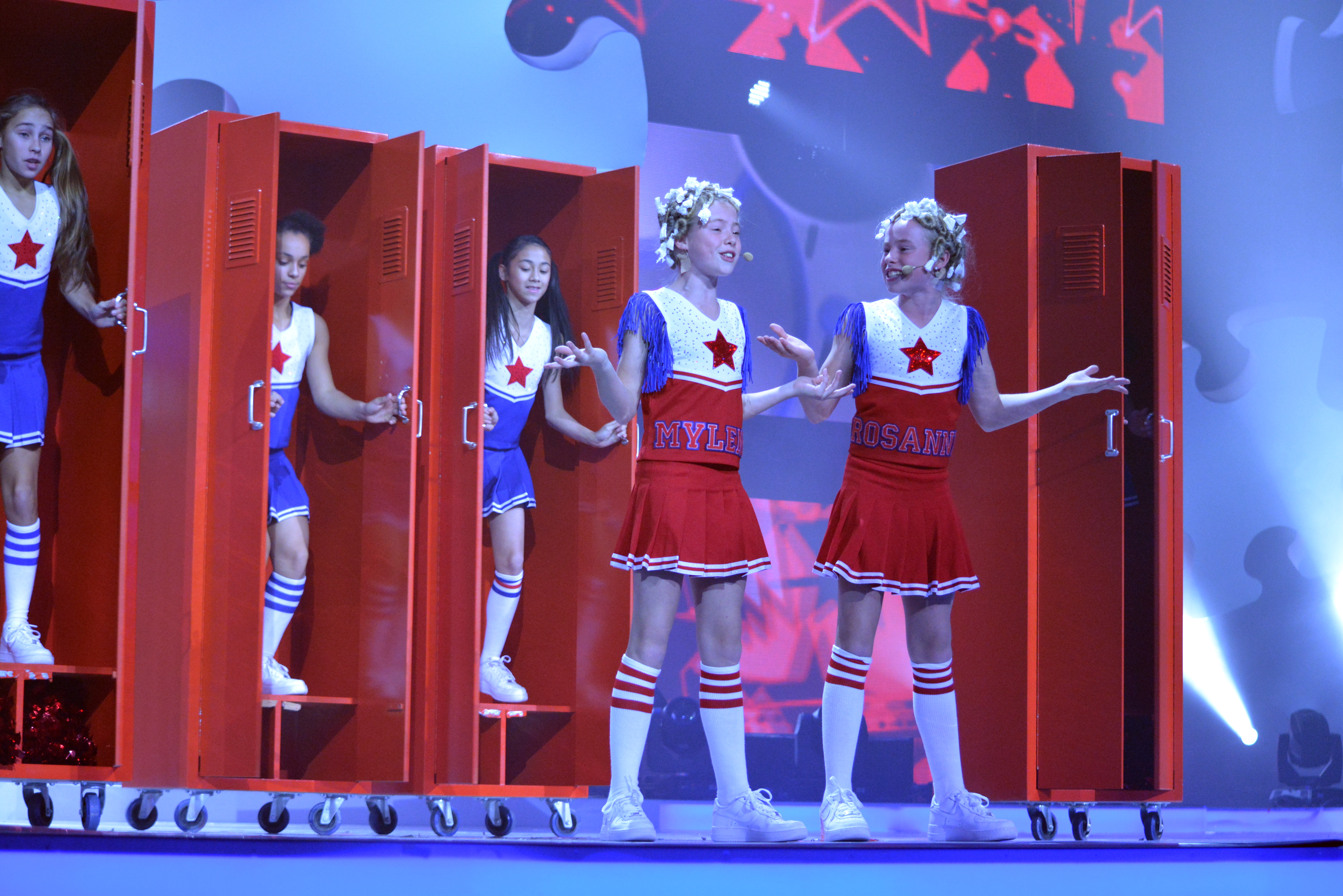 JESC 2013 (Netherlands) Mylène and Rosanne at rehearsal